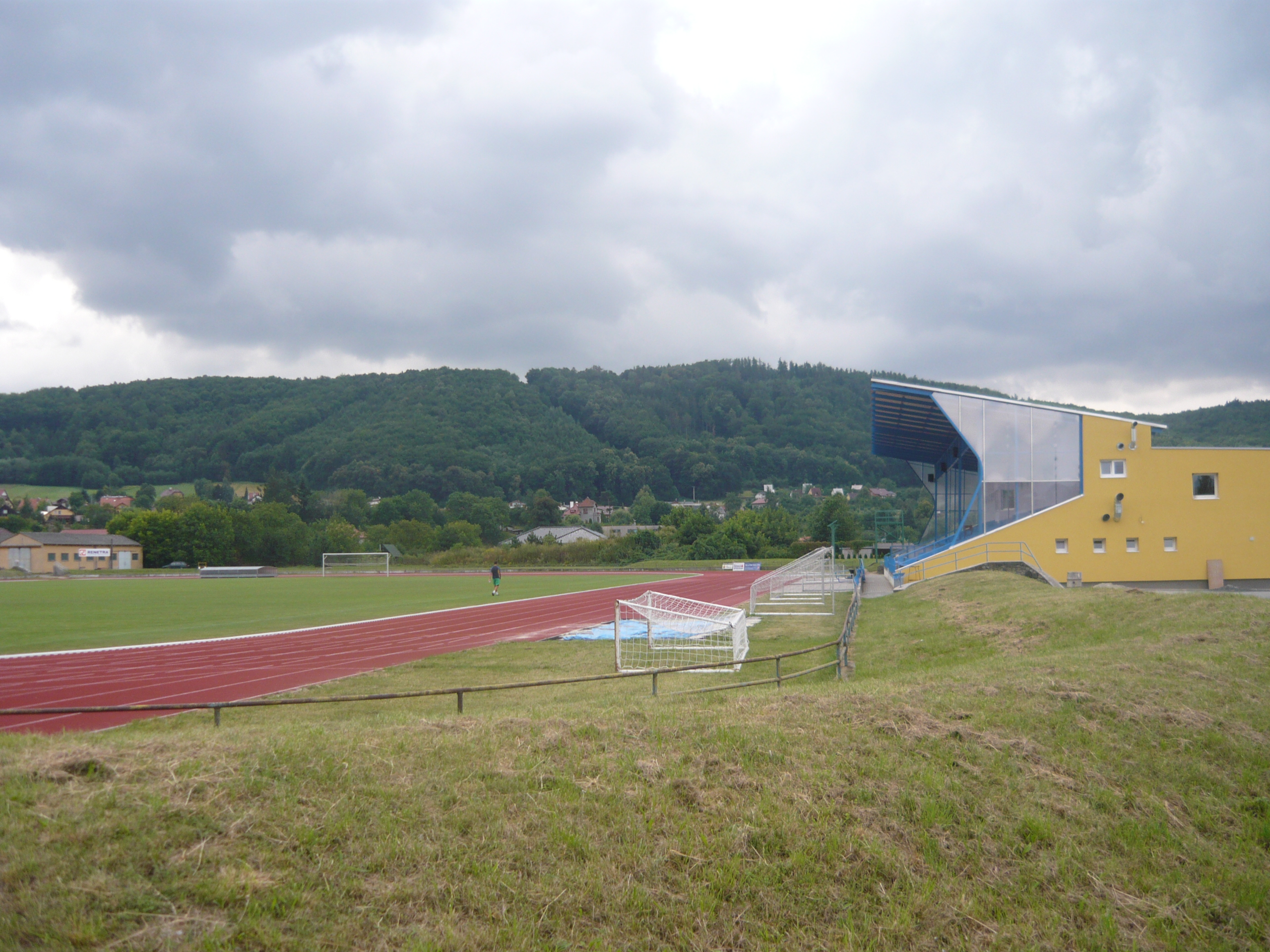 SK Hranice football pitch and grandstand